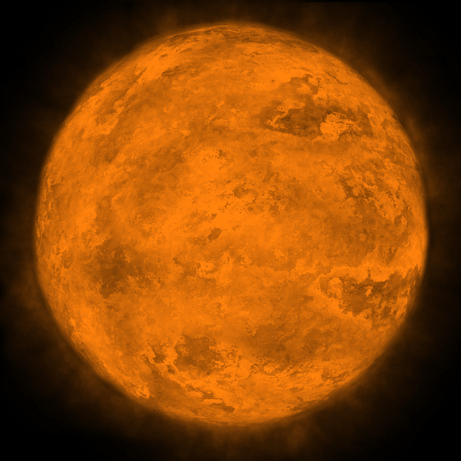 Fictional rendering of a late orange dwarf (near M-type) star.